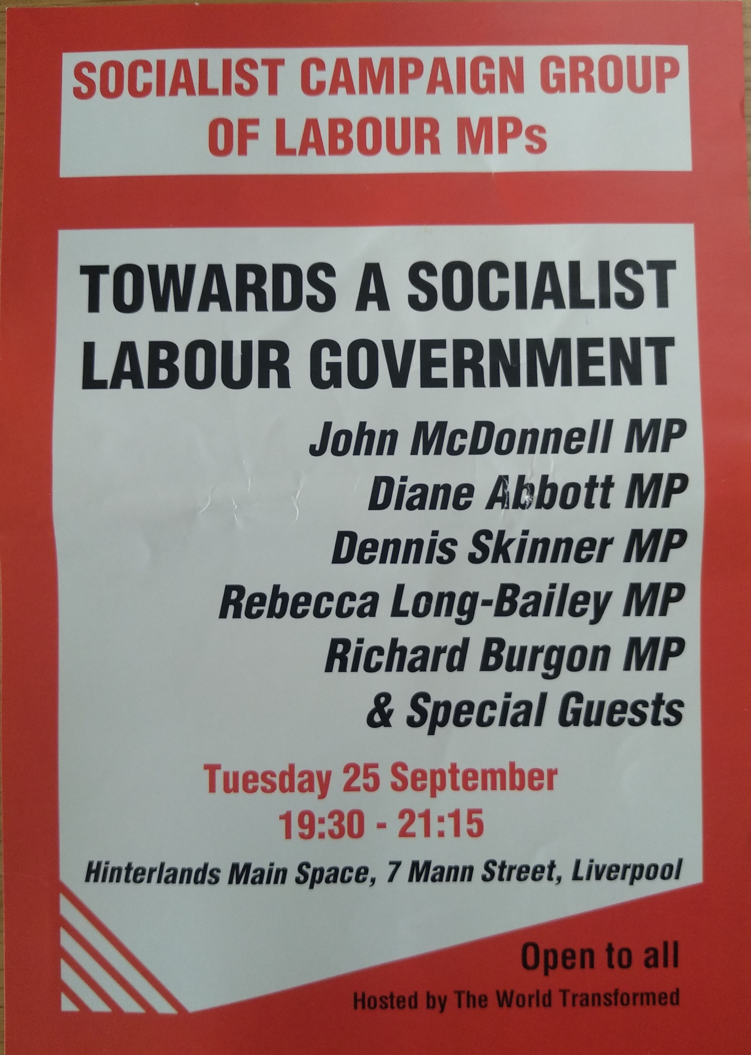 Flyer advertising the Socialist Campaign Group of Labour MPs rally at The World Transformed during Labour Conference 2018